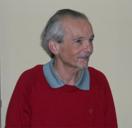 Bernard H Lavenda photo